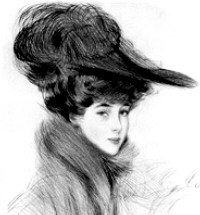 The Duchess of Marlborough, circa 1903, by Paul César Helleu